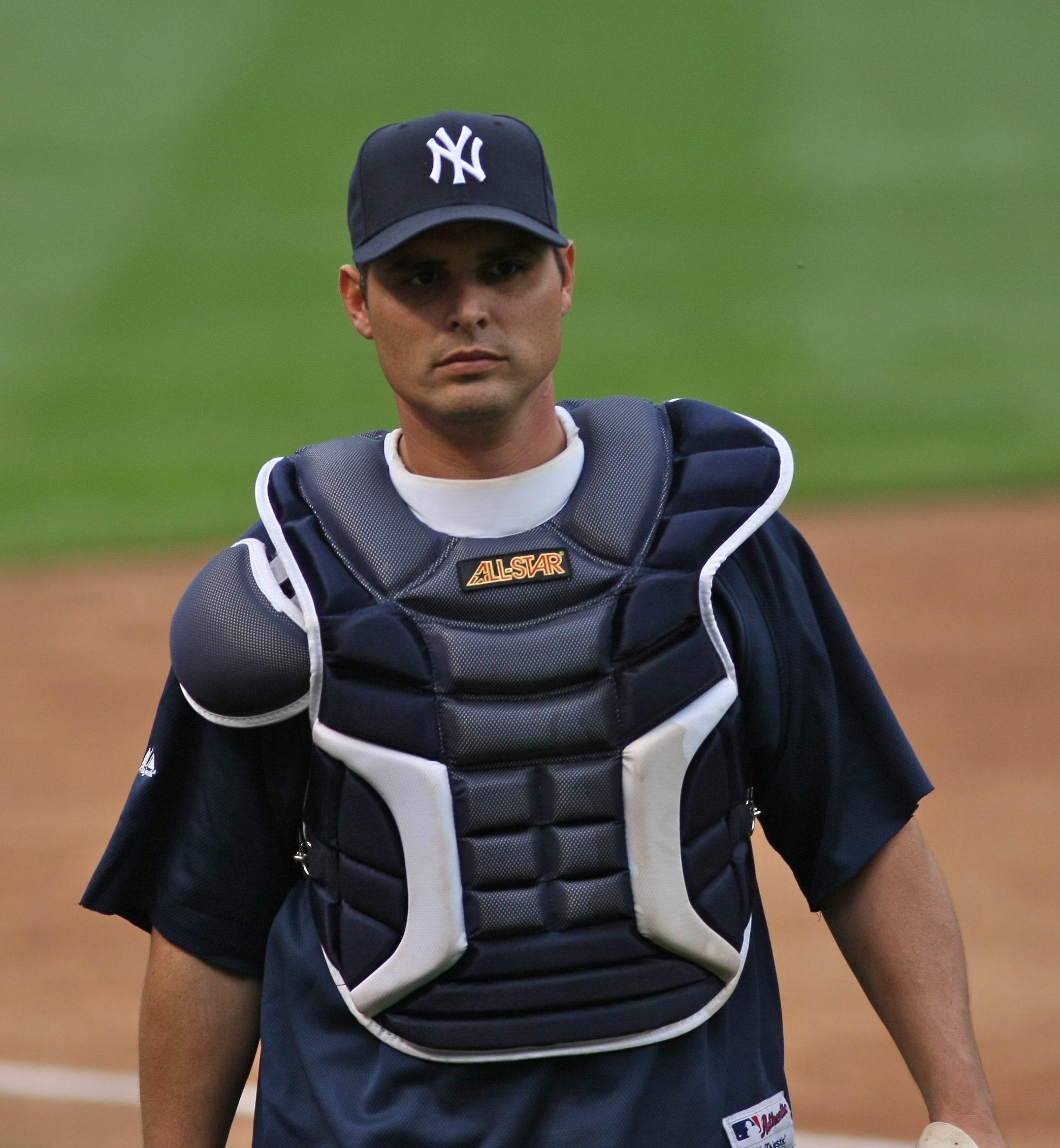 Kevin Cash